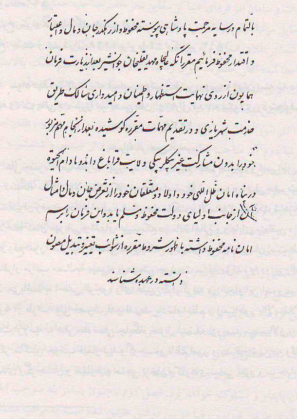 Taken from pg 261 of Iranian forigen office(Bureau for Publication of Documents), "Some documents of relations between Caucasia and Iran". Sample from the manuscript of Fat?h Ali Shah Qajar to Mehdi Gholi Khan Javanshir (son of Ibrahim-Khalil Panah Khan Javanshir)